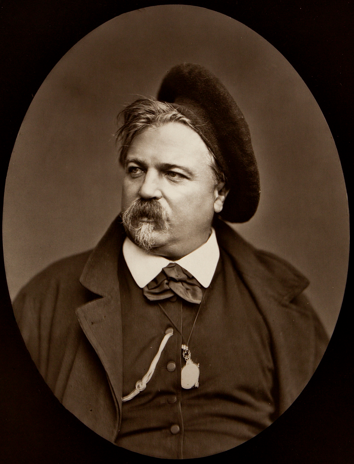 Grévin, Alfred Woodburytype (19x23.5cm) depicting the French artist Alfred Grévin, photographed by Chambey for the ‘Galérie Contemporaine’ (1876-1880). Outstanding photomechanical printwork (Woodburytype process) by the Goupil Company in Paris. “Galerie Contemporaine, 126, Boulevard de Magenta, Phot. Goupil & Co, Cliché Chambey, au Grand-Hotel, Paris”.